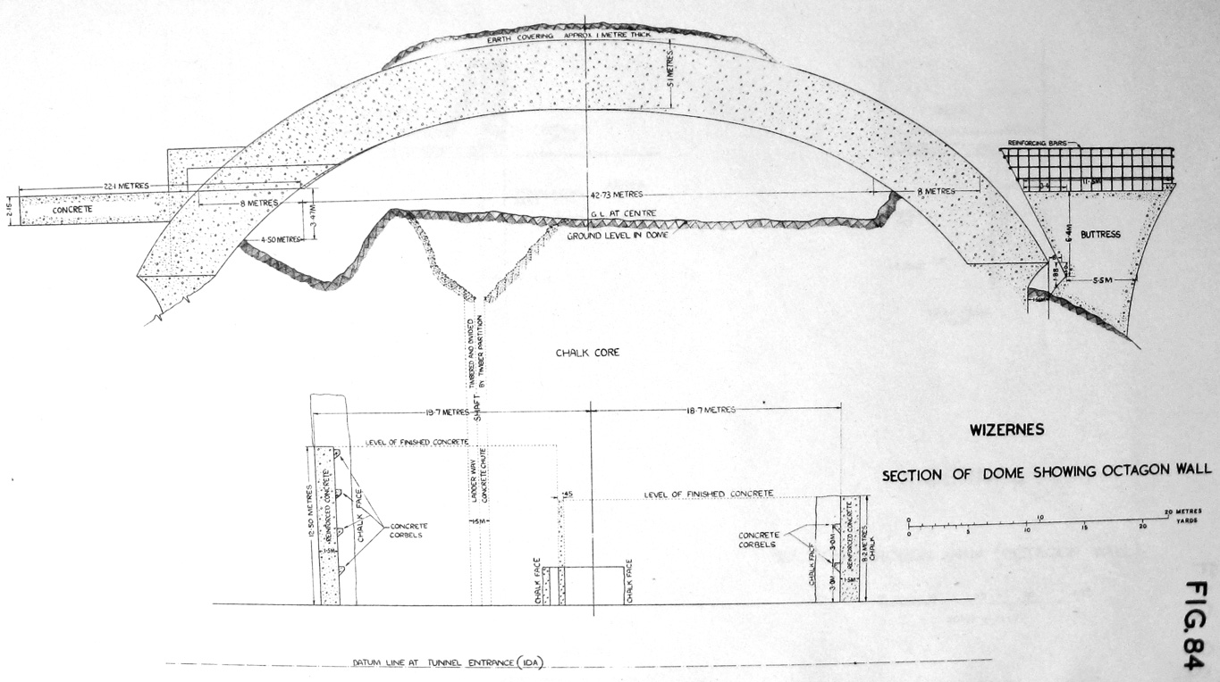 Wizernes: Section of dome showing Octagon wall